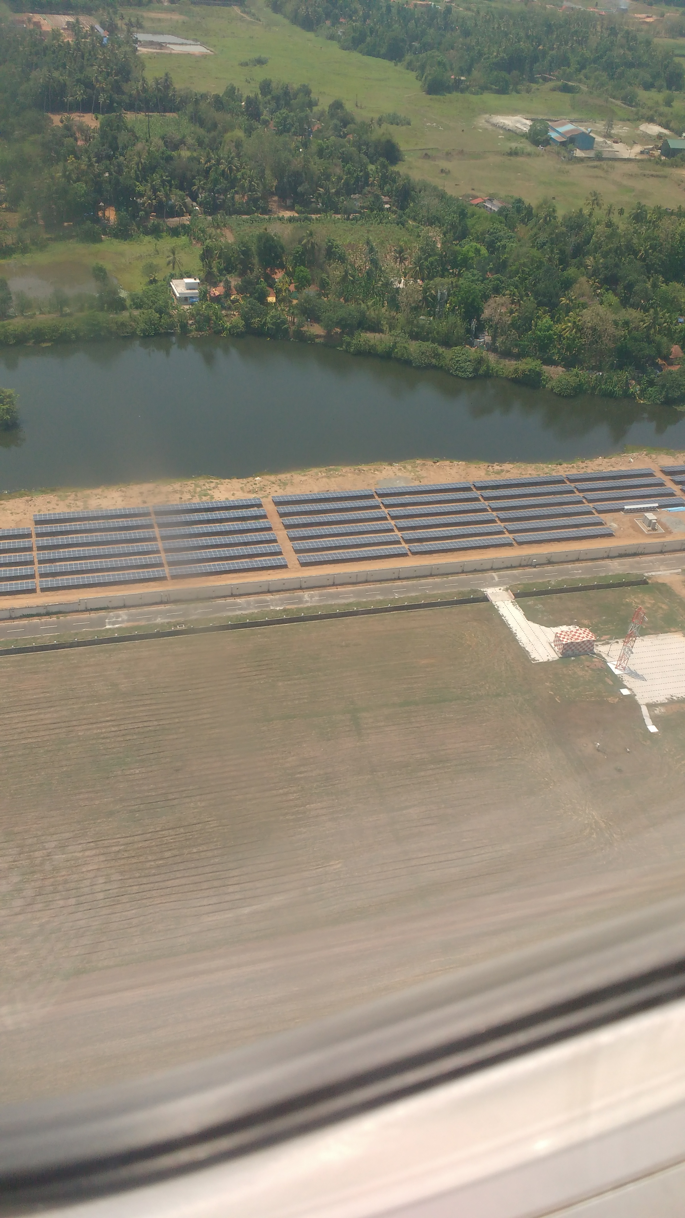 Solar Plant powering the Cochin International Airport